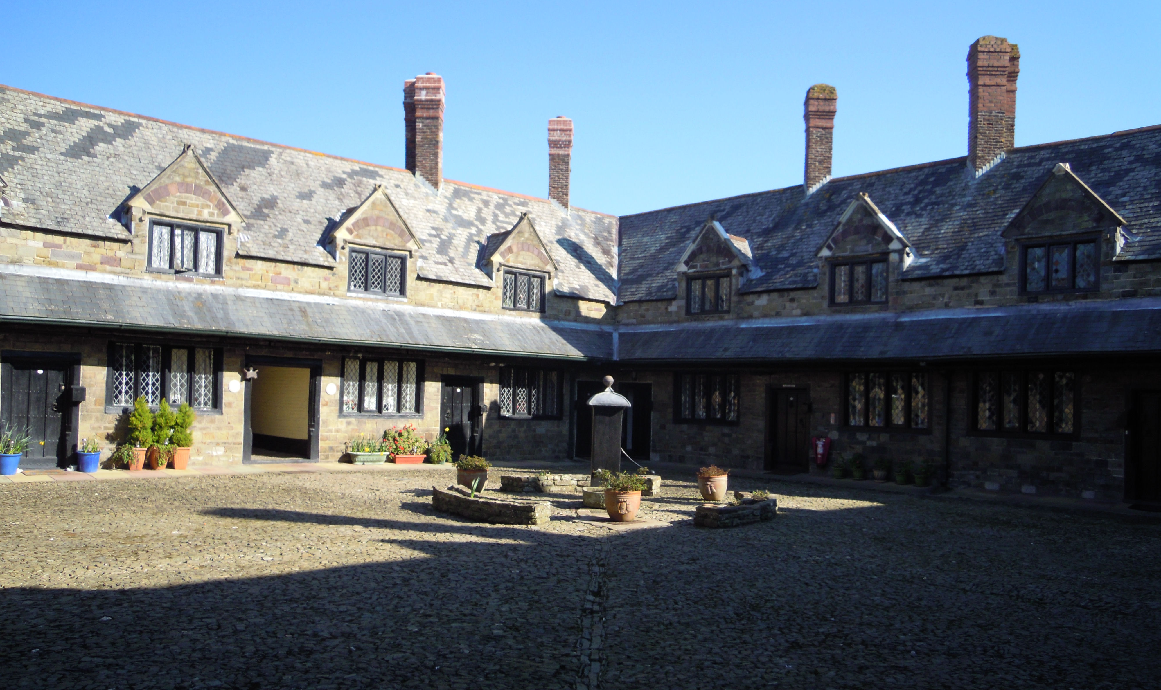 The courtyard at Penrose's Almshouses in Barnstaple in Devon